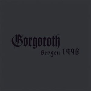 Cover of the album Bergen 1996 by Gorgoroth.